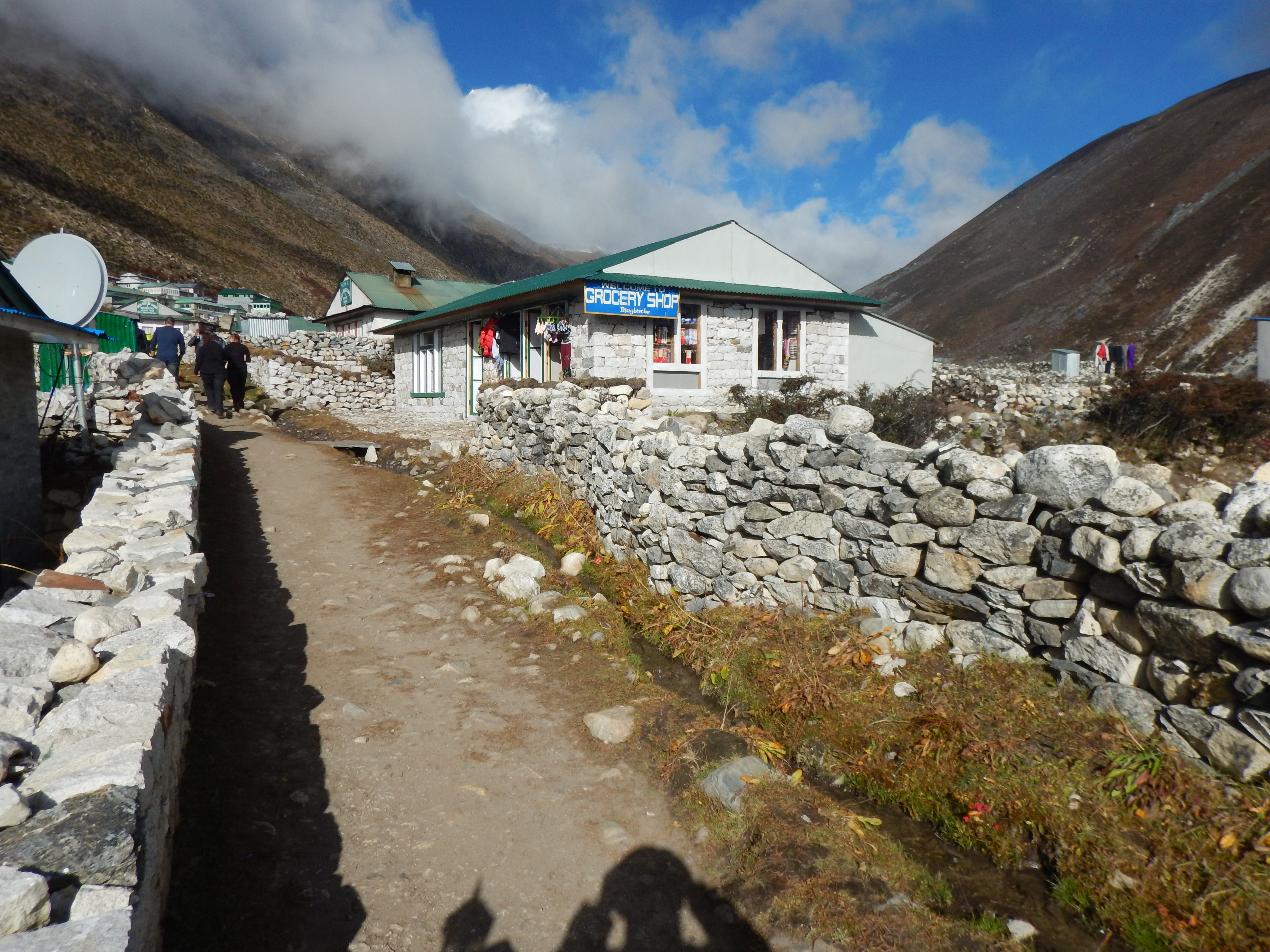 Dingboche village - Khumbu - Nepal